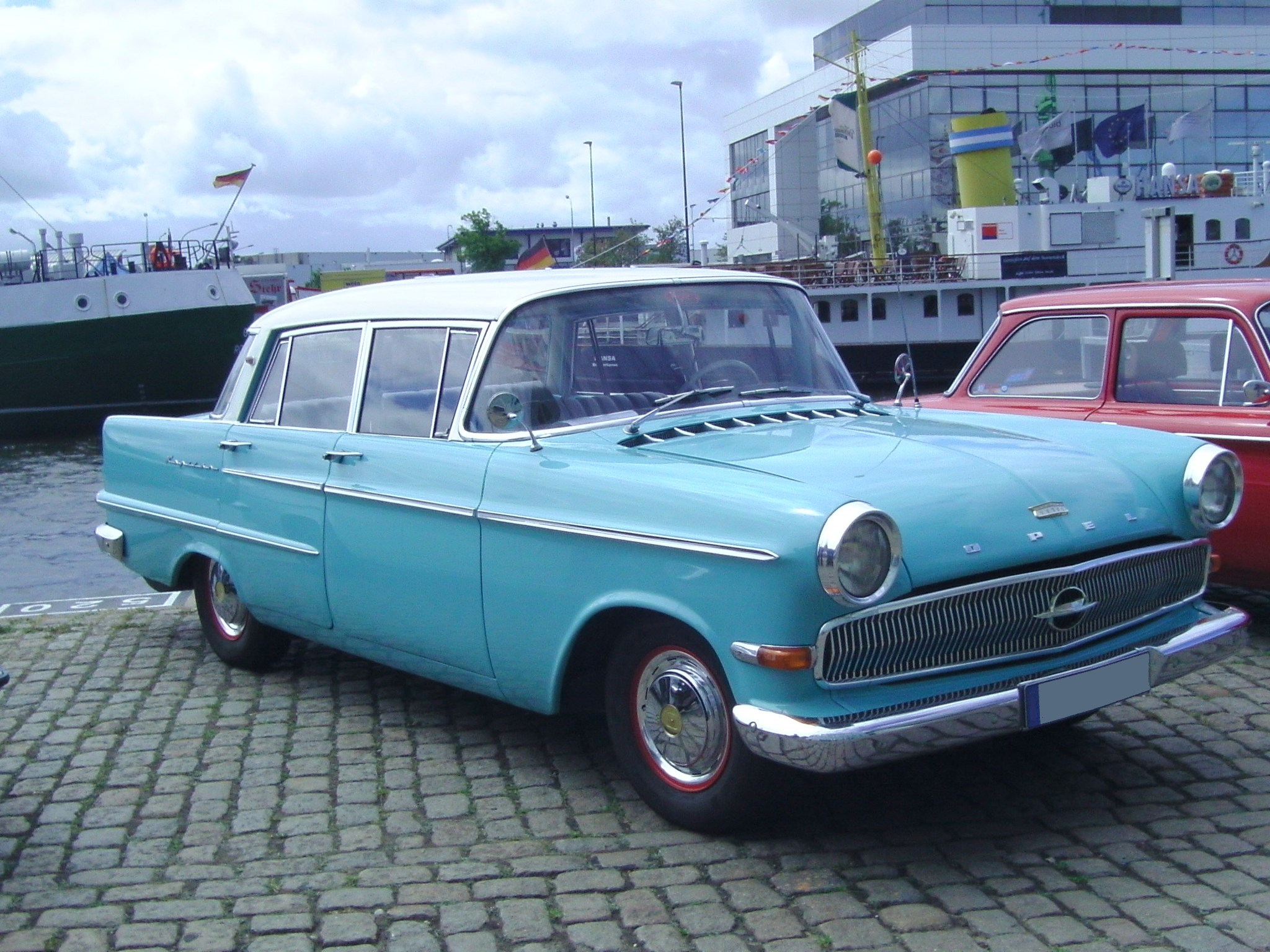 An Opel Kapitän P 2